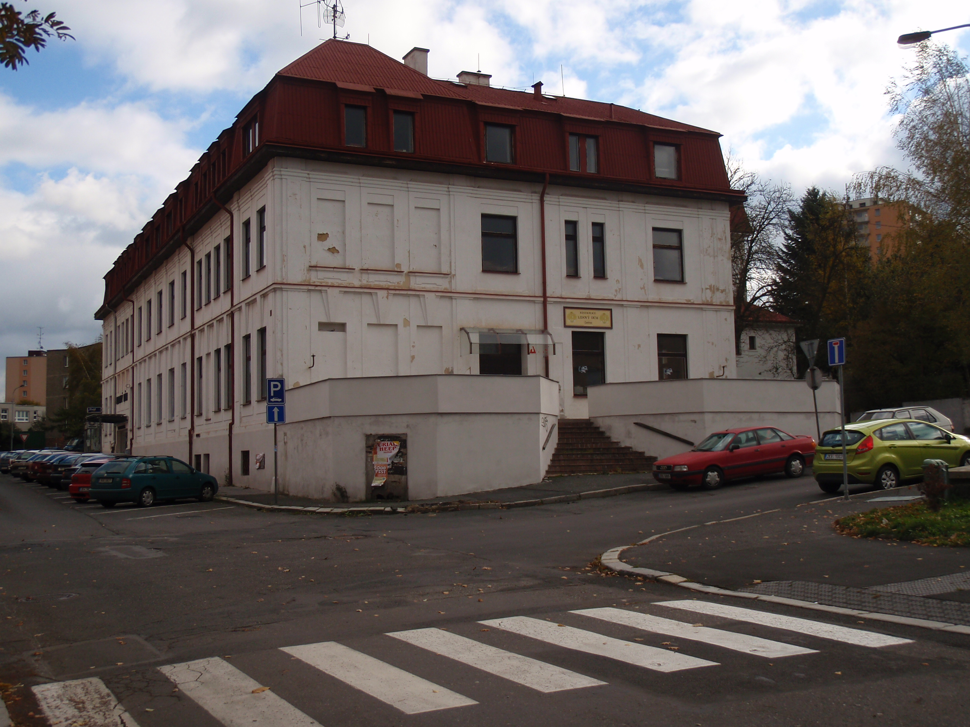 House of culture (Karlovy Vary)